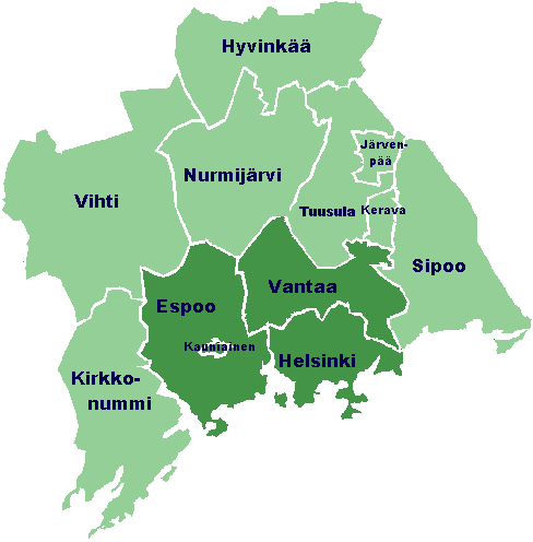 Map of the Helsinki region before 2009